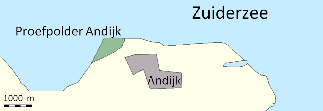 the pilot polder Andijk built in 1927, in green